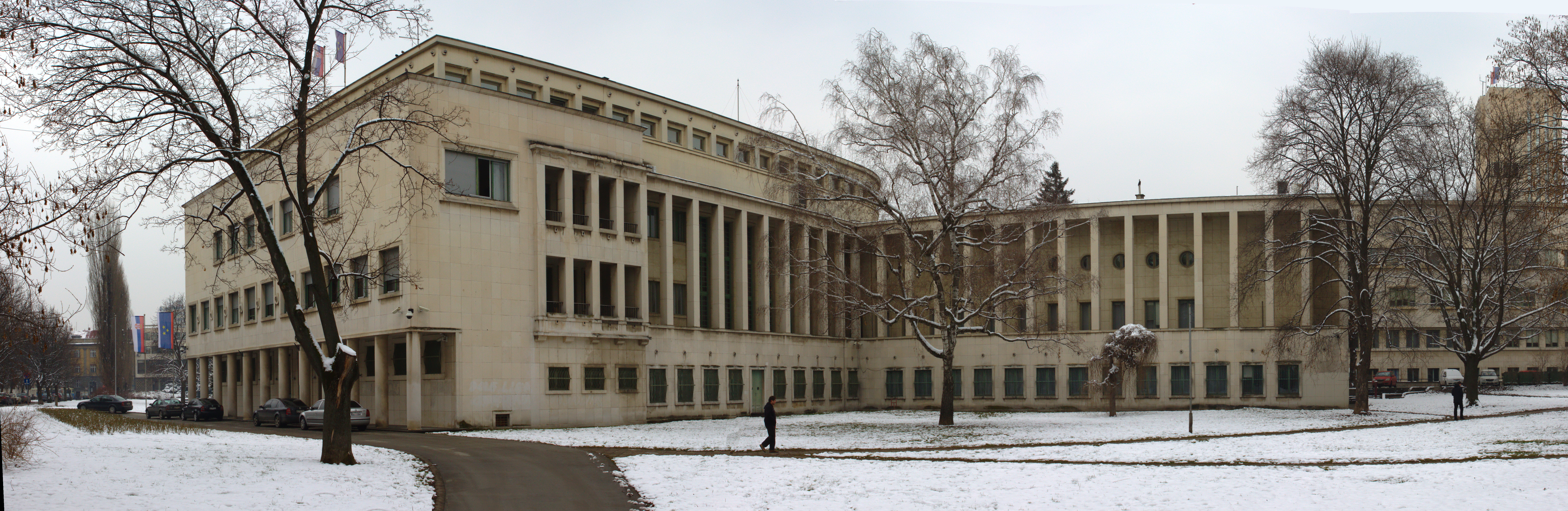 A view of the rear part of the Vojvodina's parliament (skupština) in Novi Sad, Serbia